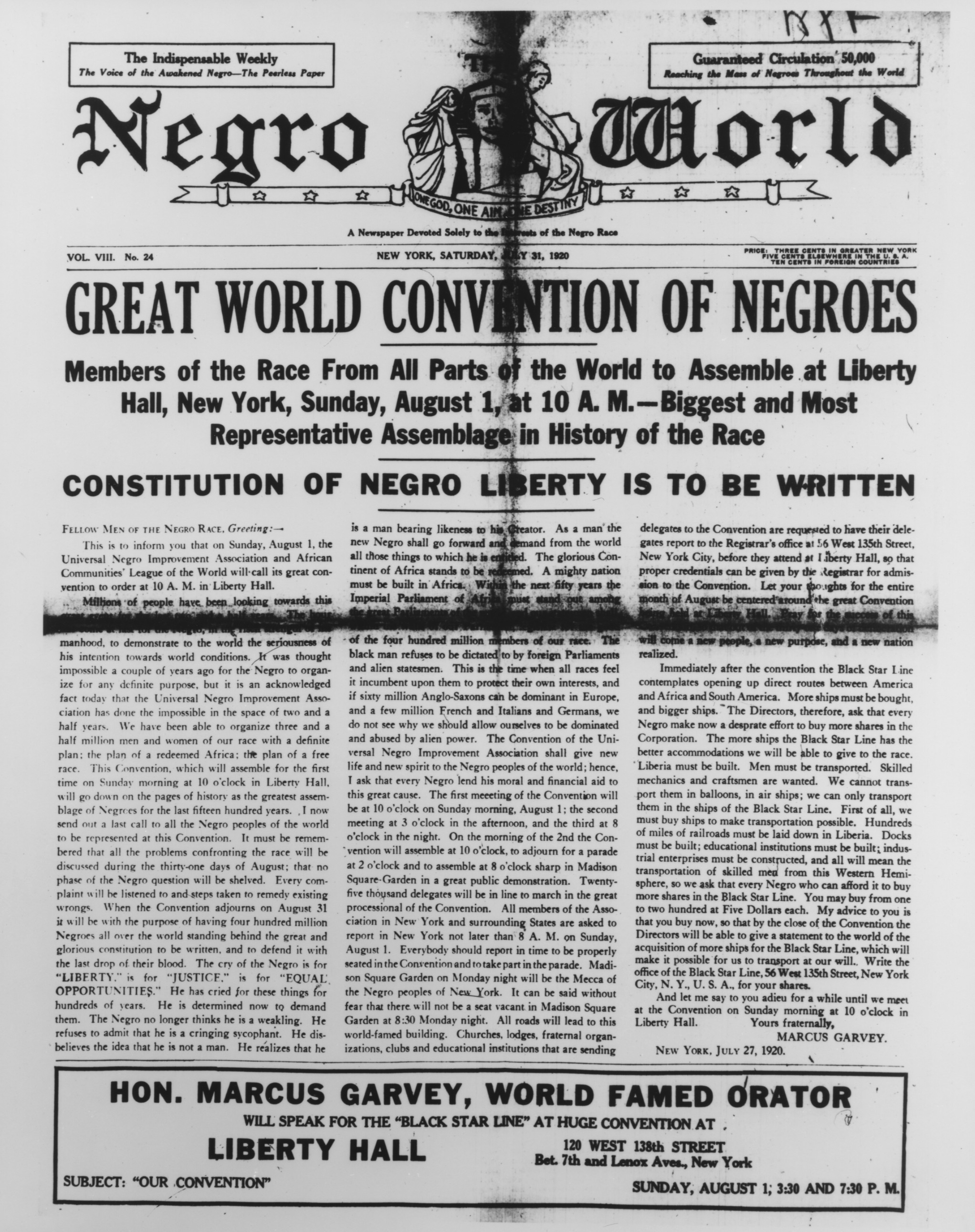 July 31st cover of Negro World